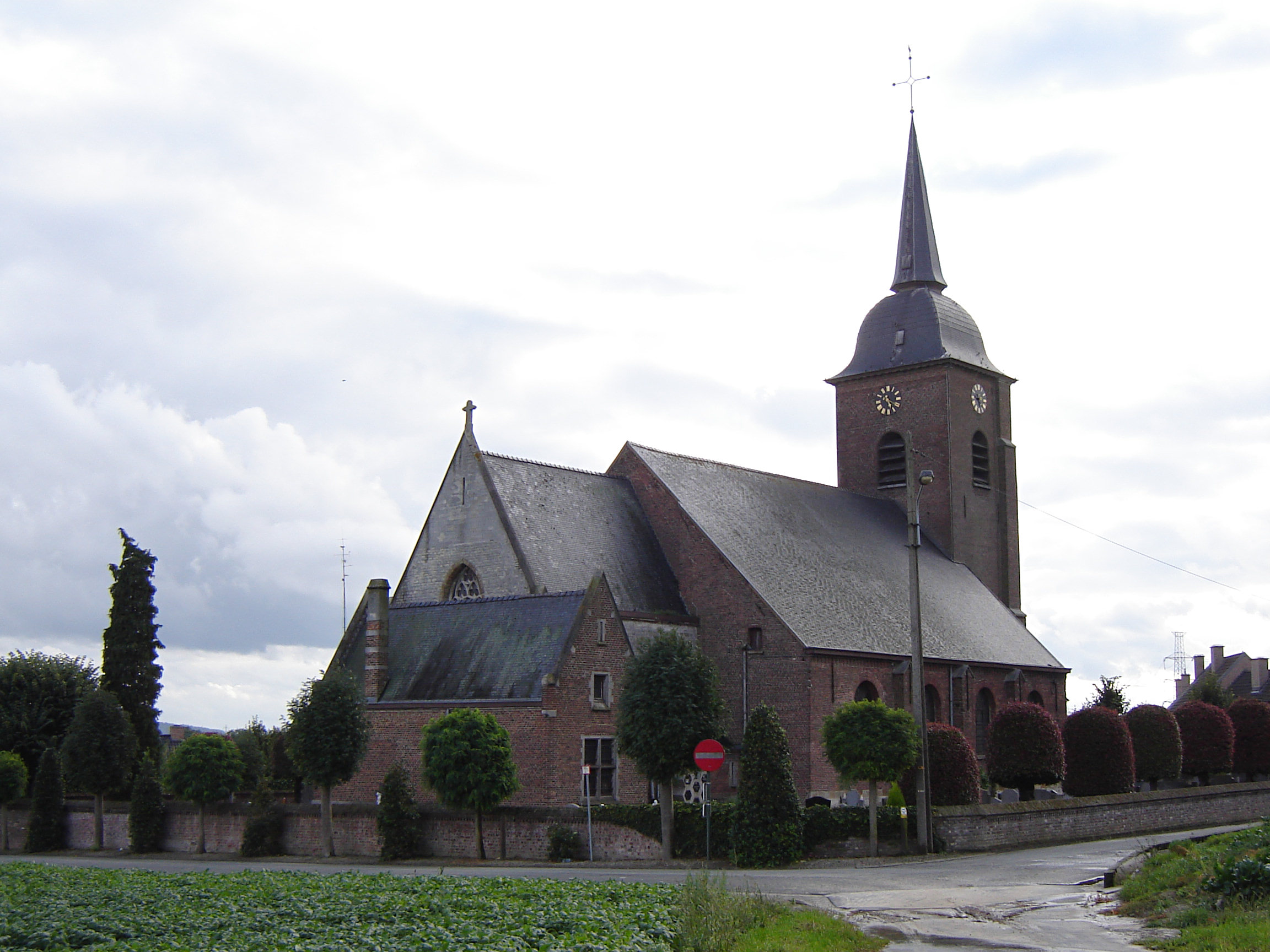 Church of Saint Peter in Kaster. Kaster, Anzegem, West Flanders, Belgium